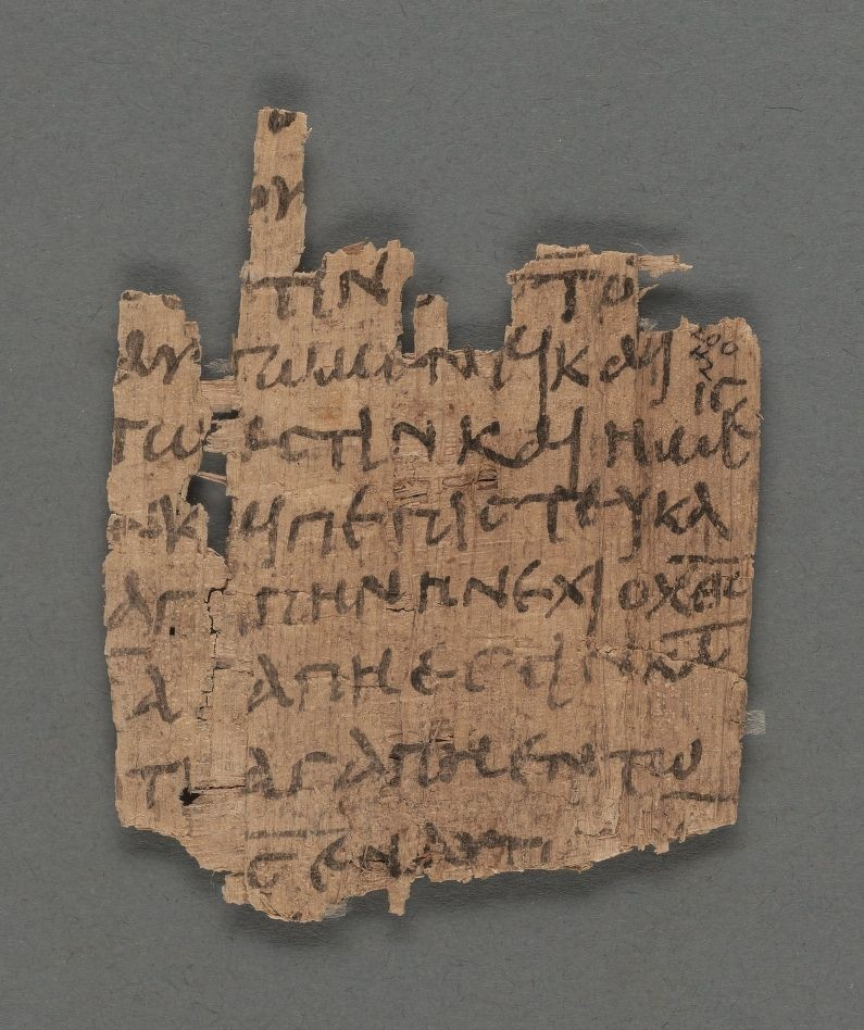 Papyrus 9 - P. Oxy. III 402 - Houghton Library MS Gr SM3736 - First Epistle of John, 4,11–12,14–17 - verso